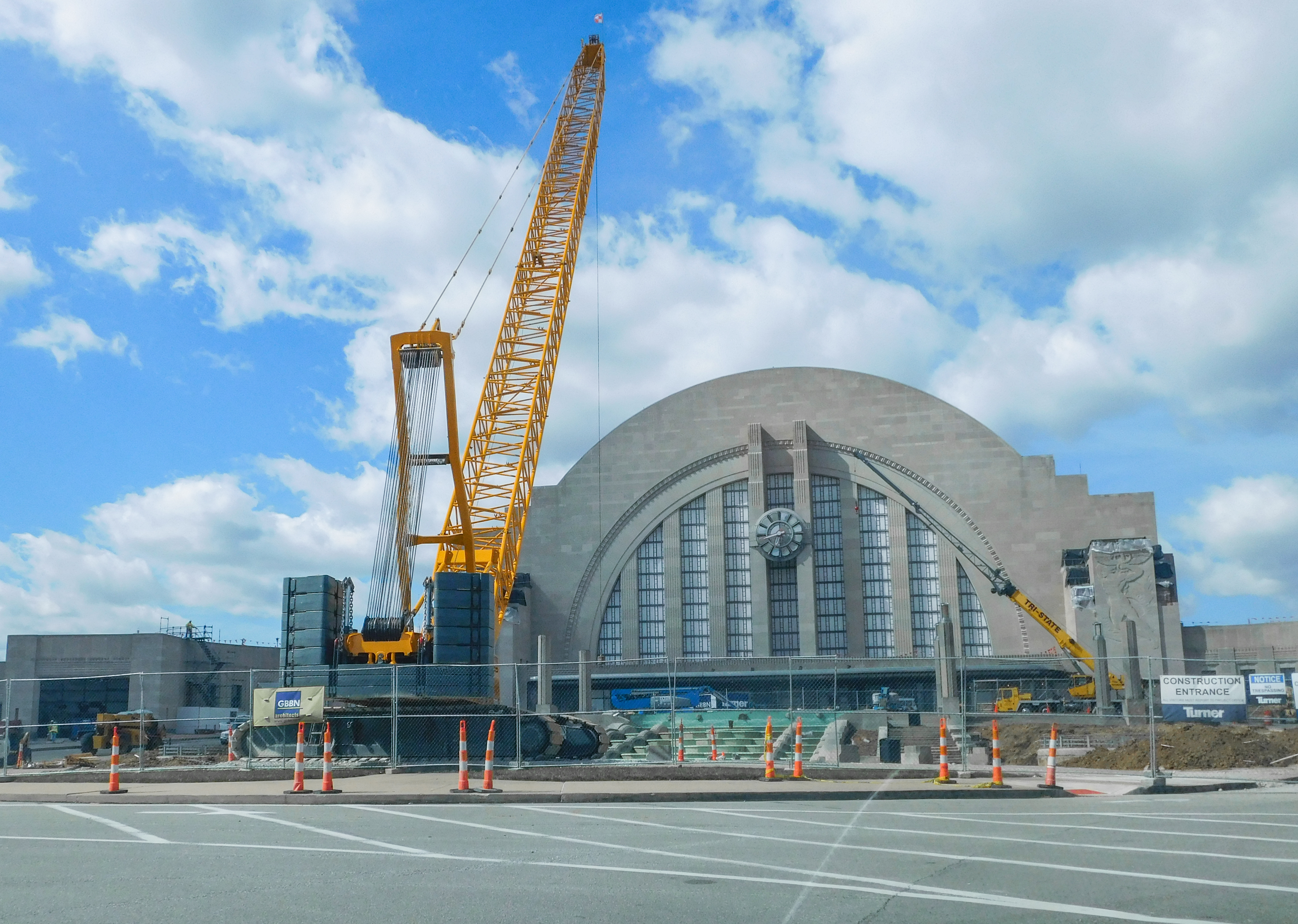 Cincinnati, Ohio